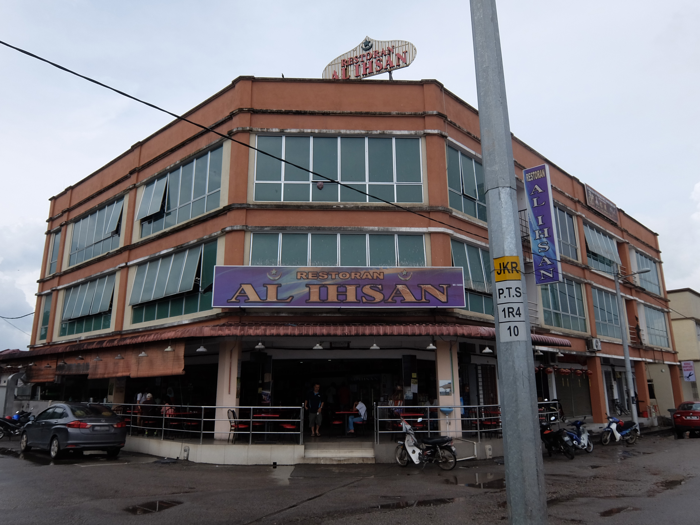 Al Ihsan Restaurant, Jementah, Segamat, Johor, Malaysia